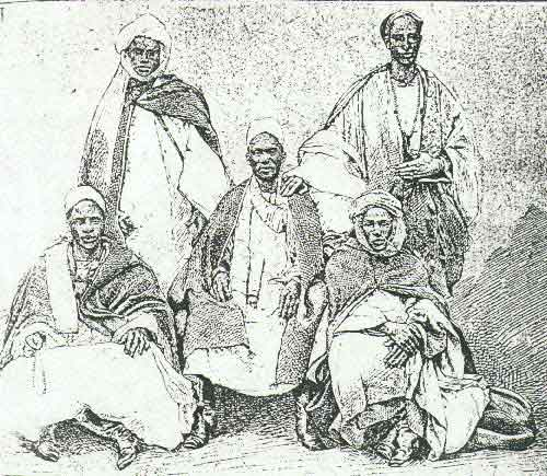 1882 Futa Jallon embassy to France, drawn by Ernest Noirot (18 August 1851 - 28 December 1913), a French comic actor, photographer, explorer and colonial administrator in Senegal and French Guinea in West Africa